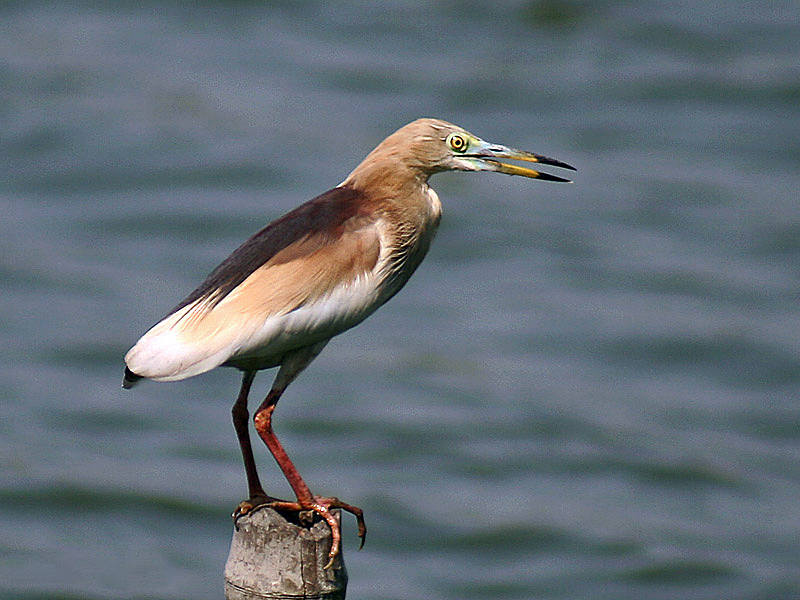 Indian Pond Heron Ardeola grayii in Kolkata, West Bengal, India.